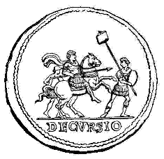 738 woodcuts illustrating the work A Dictionary of Roman Coins, Republican and Imperial (1889). To identify a coin please look at the filename to identify a page number, and check the Dictionary on numiswiki